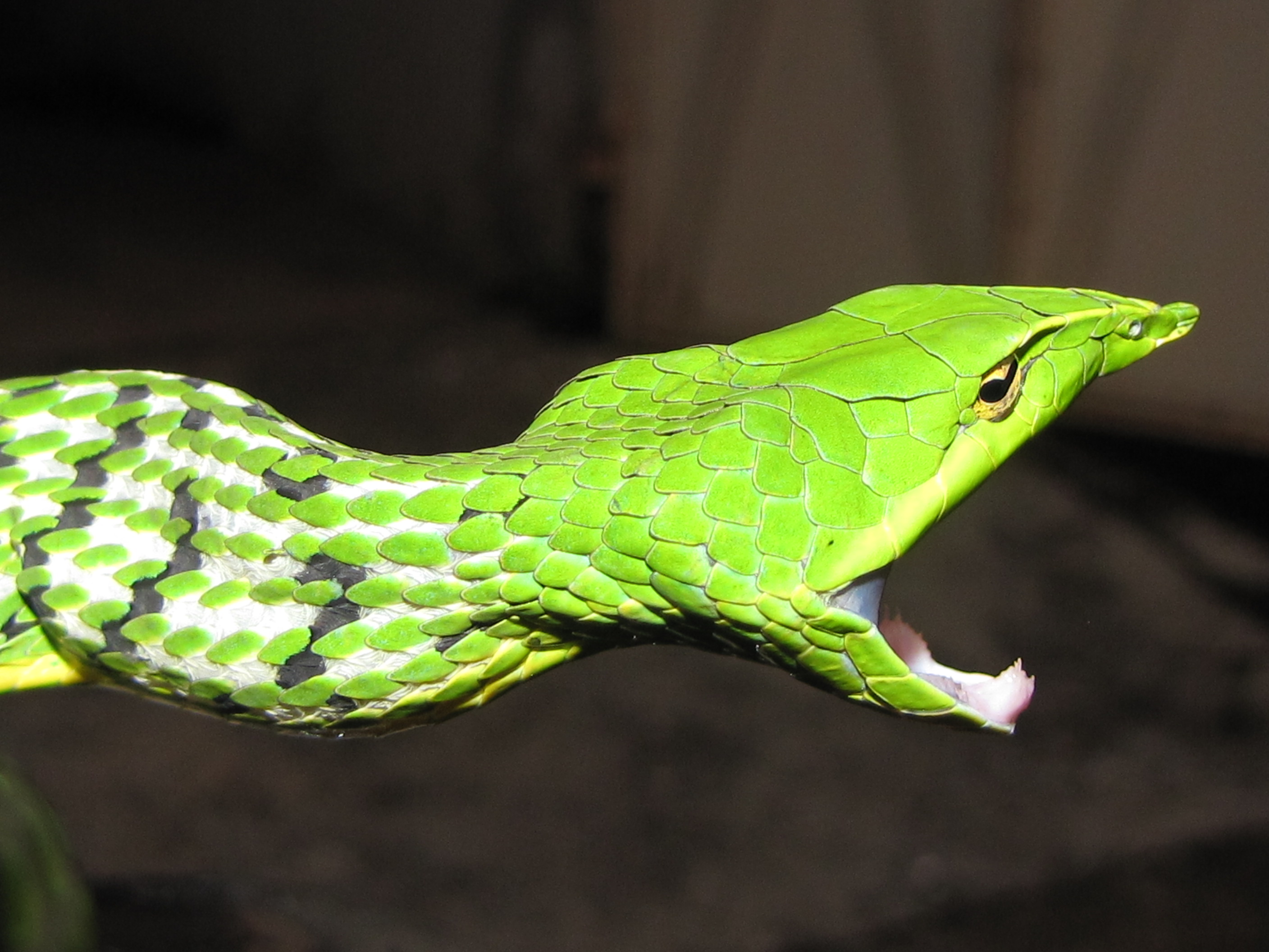 The Common Vine Snake (Ahaetulla nasuta) in a threat display.